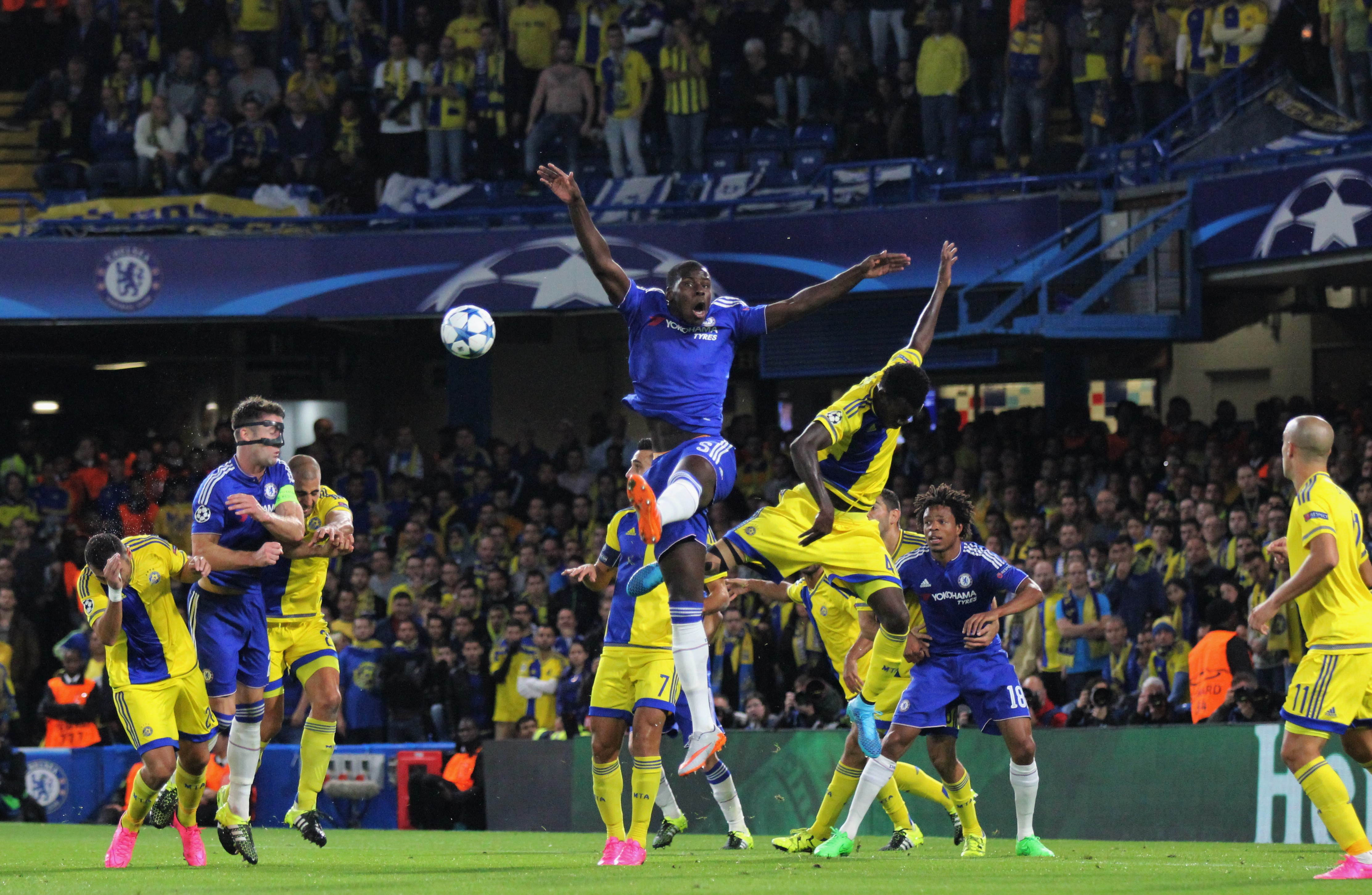 Gary Cahill of Chelsea heads the ball towards goal during the Champions League game against Maccabi Tel-Aviv.